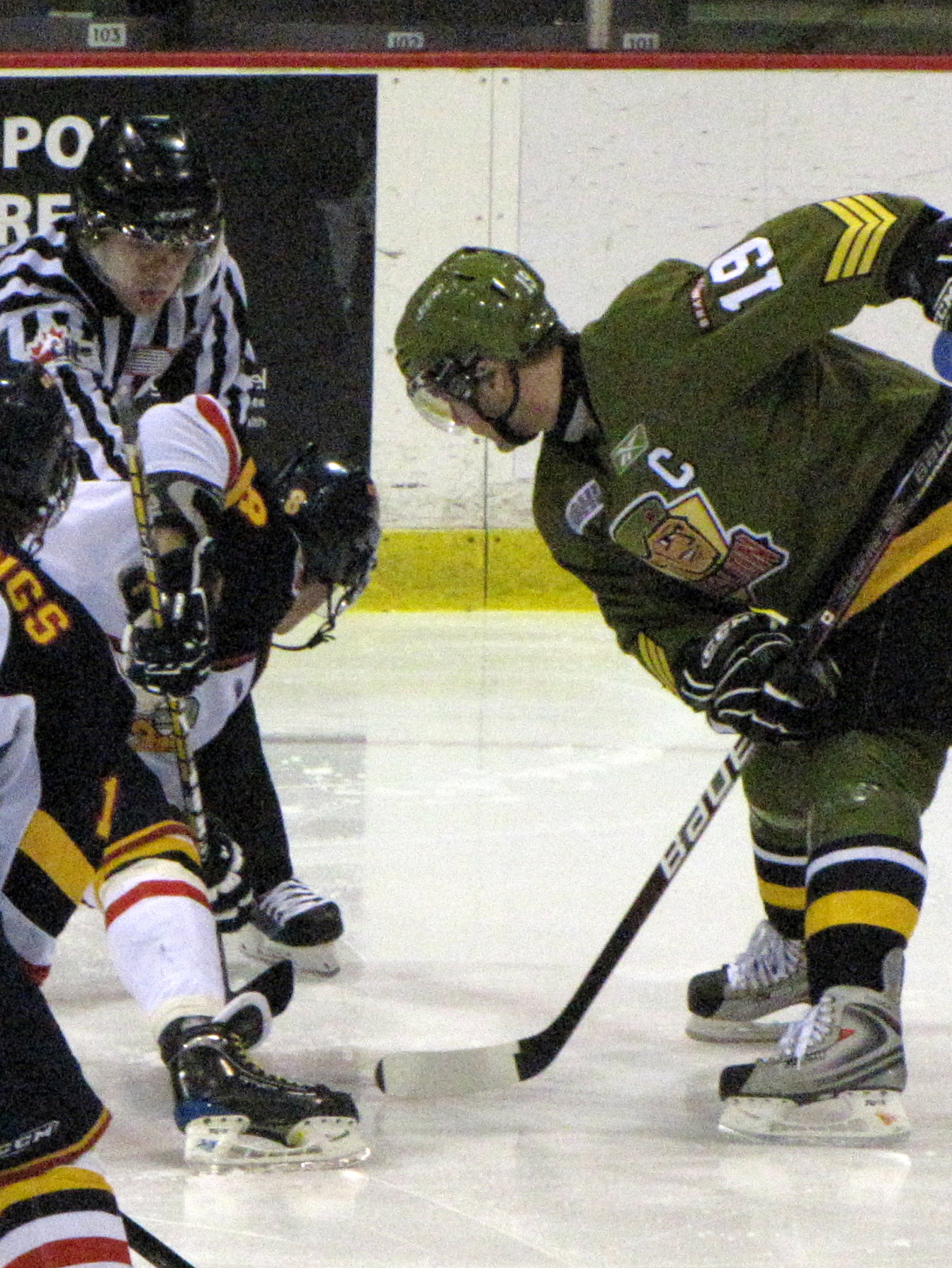 Brampton Batallion centre Cody Hodgson faces off during a game against the Barrie Colts on February 21, 2010.